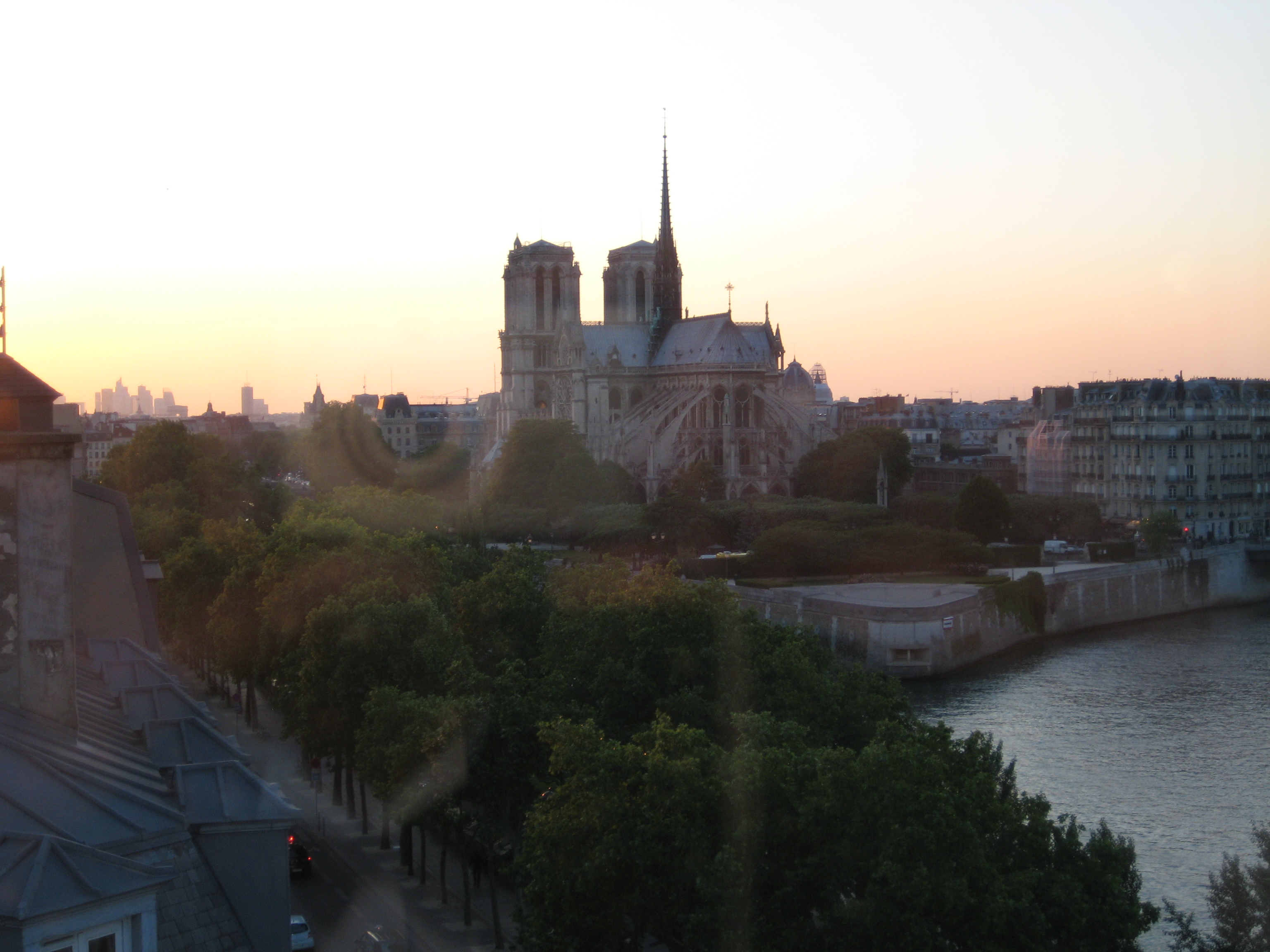 Notre-Dame de Paris as seen from La Tour d'Argent restaurant.